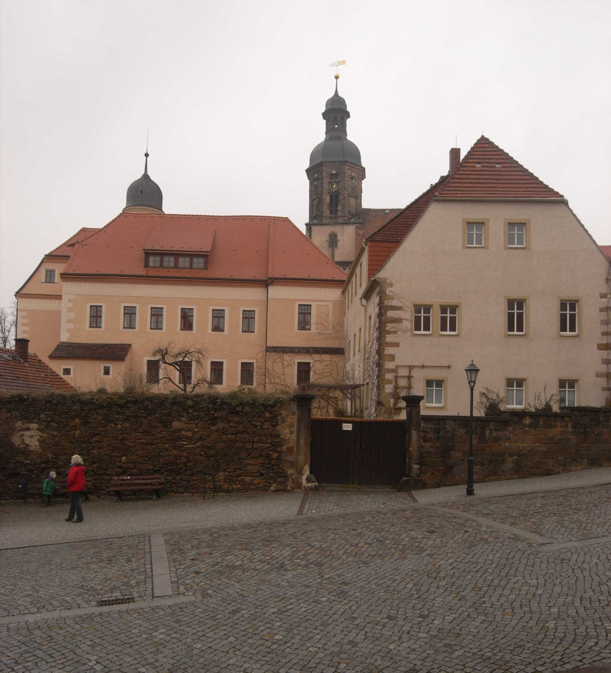 Dippoldiswalde, castle and city church St. Mary and Laurentius